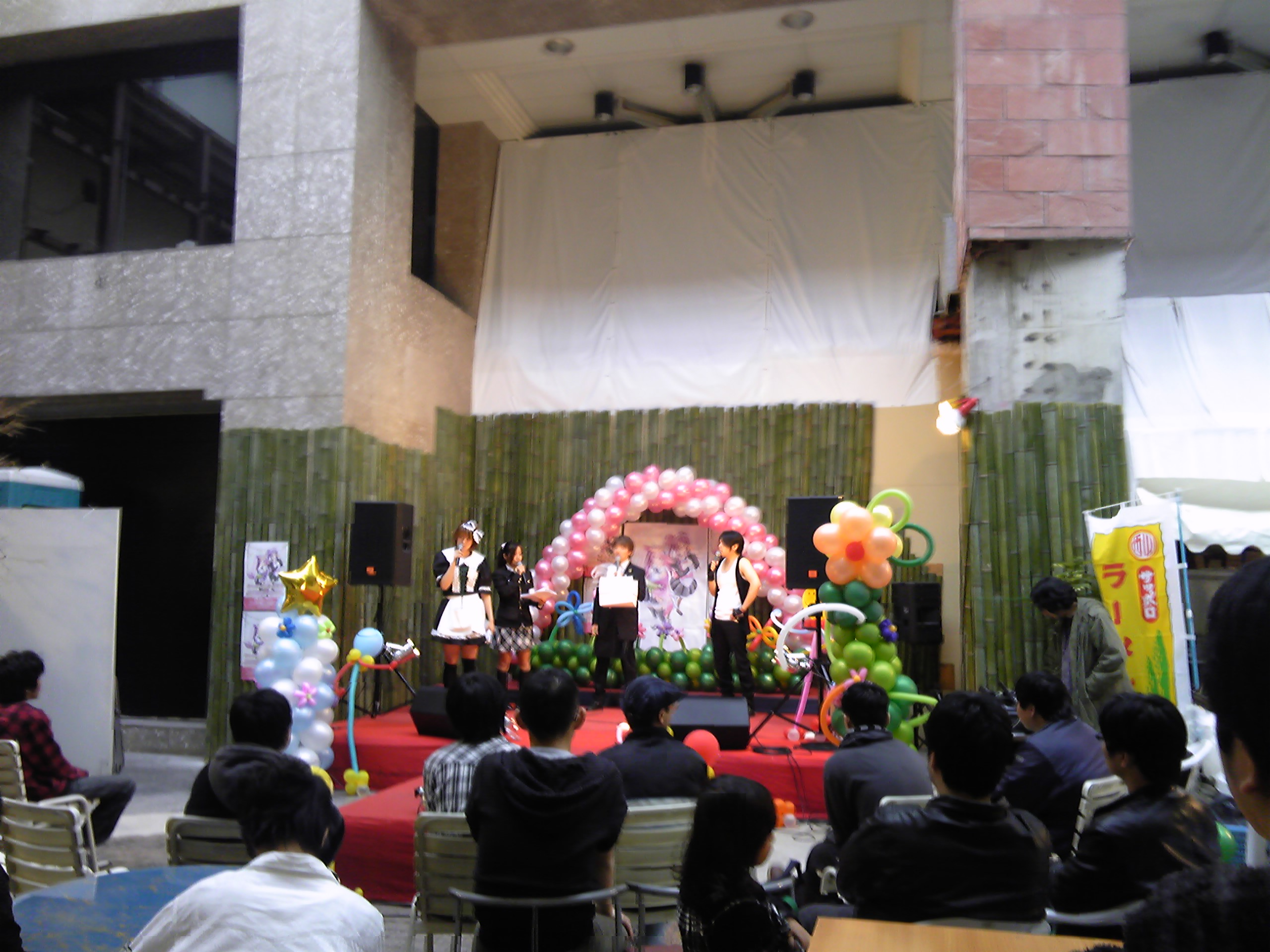 State of the event being held in front of the shops in Tokiwa-chō shōtengai, Takamatsu,Kagawa.